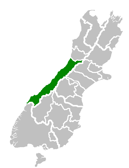 Location of Westland District.